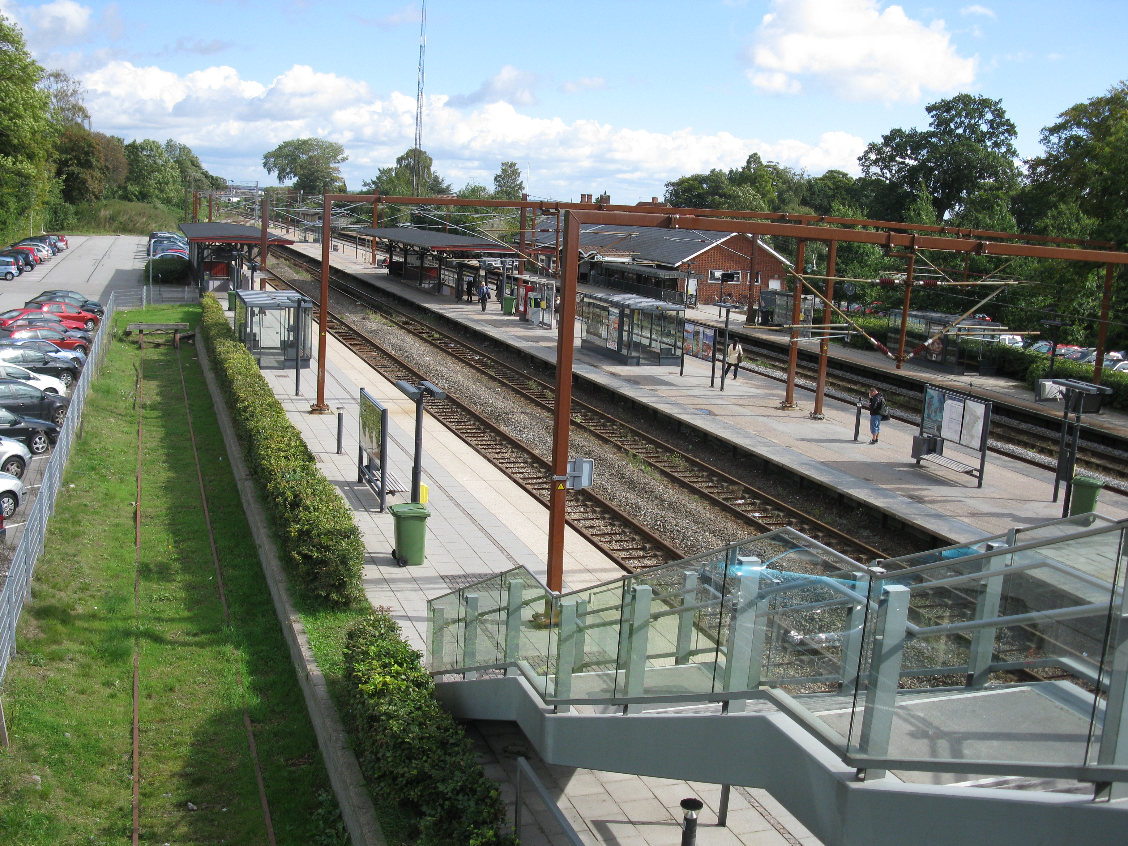 Snekkersten railway station in the town of Snekkersten, Helsingør Kommune, Denmark